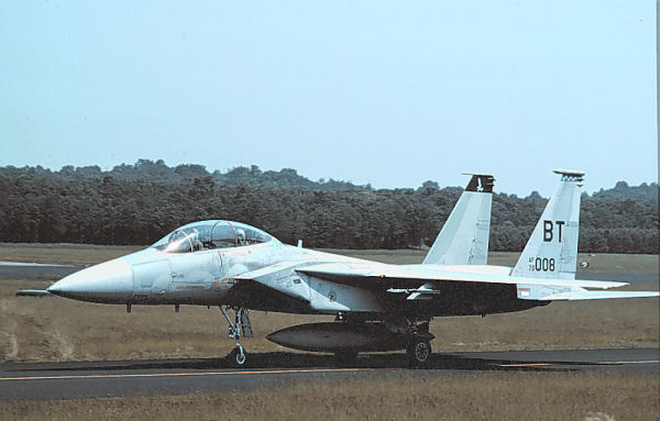 F-15D Serial 79-008 of the 525th Tactical Fighter Wing, Bitburg AB Germany Source: United States Air Force Historical Research Agency - Maxwell AFB, Alabama